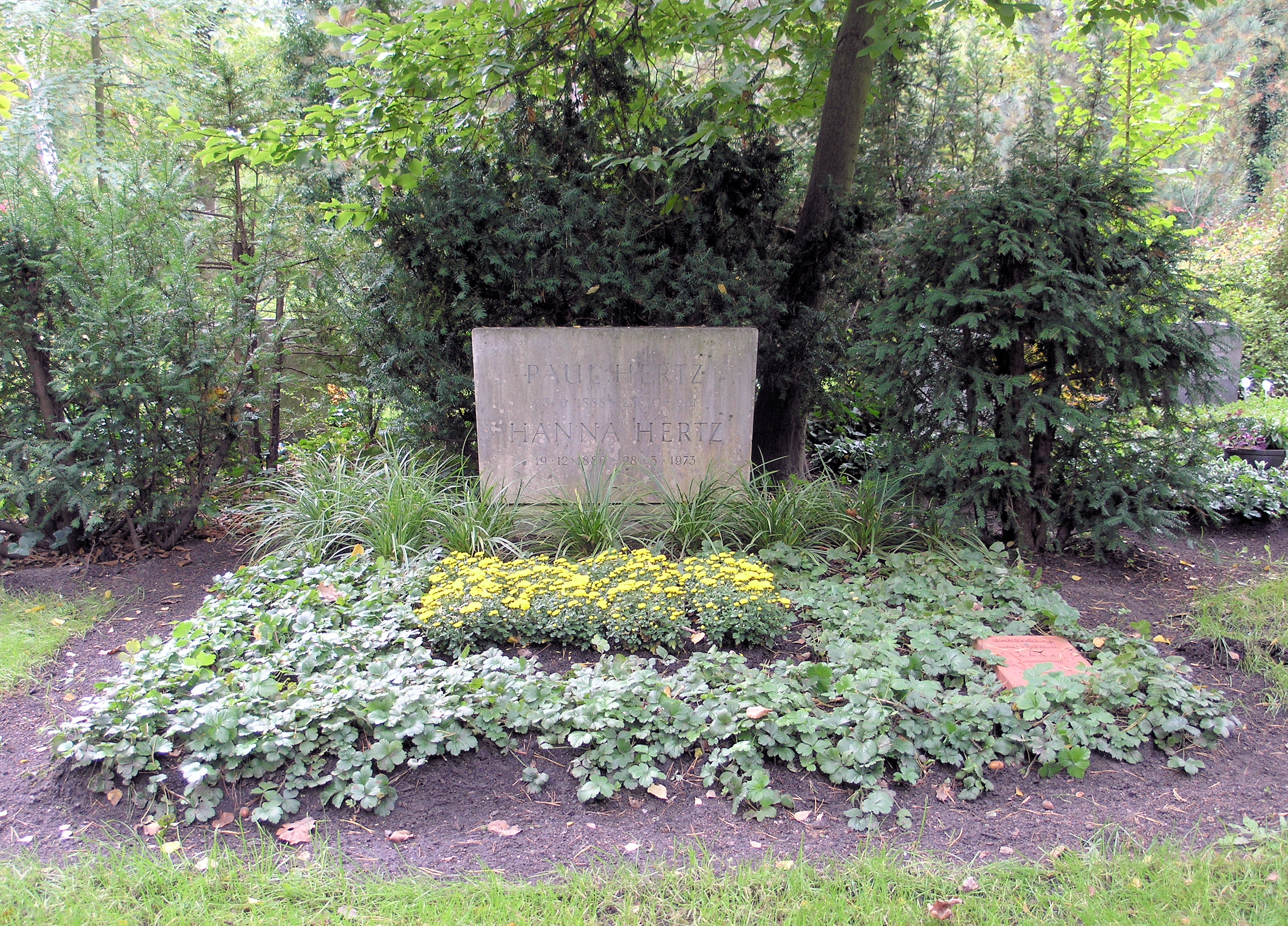 "Ehrengrab" (grave of honor), Paul Hertz, Potsdamer Chaussee 75, Berlin-Nikolassee, Germany Koordinate:52°25′23″N 13°12′38″E / 52.42306°N 13.21056°E